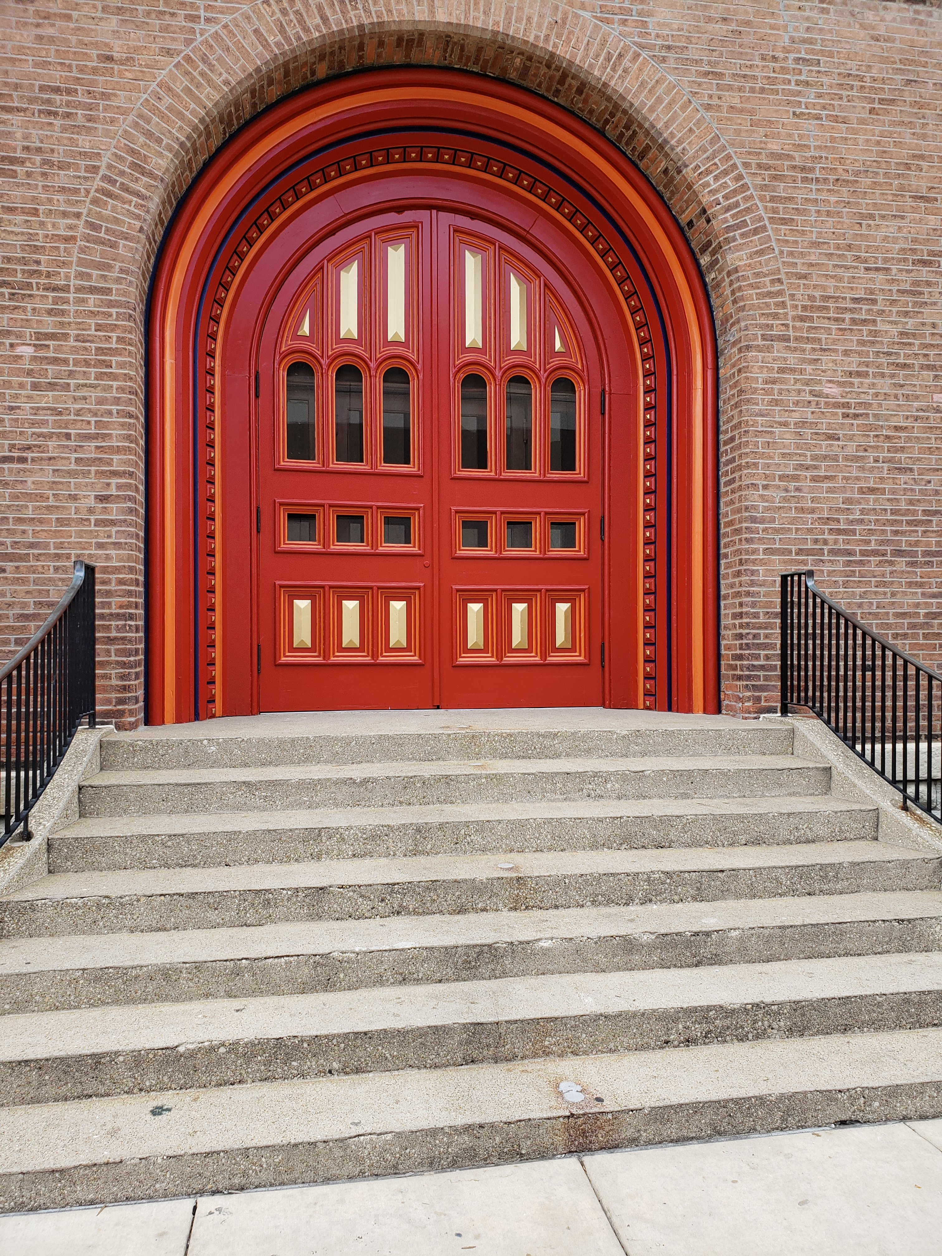 Doors